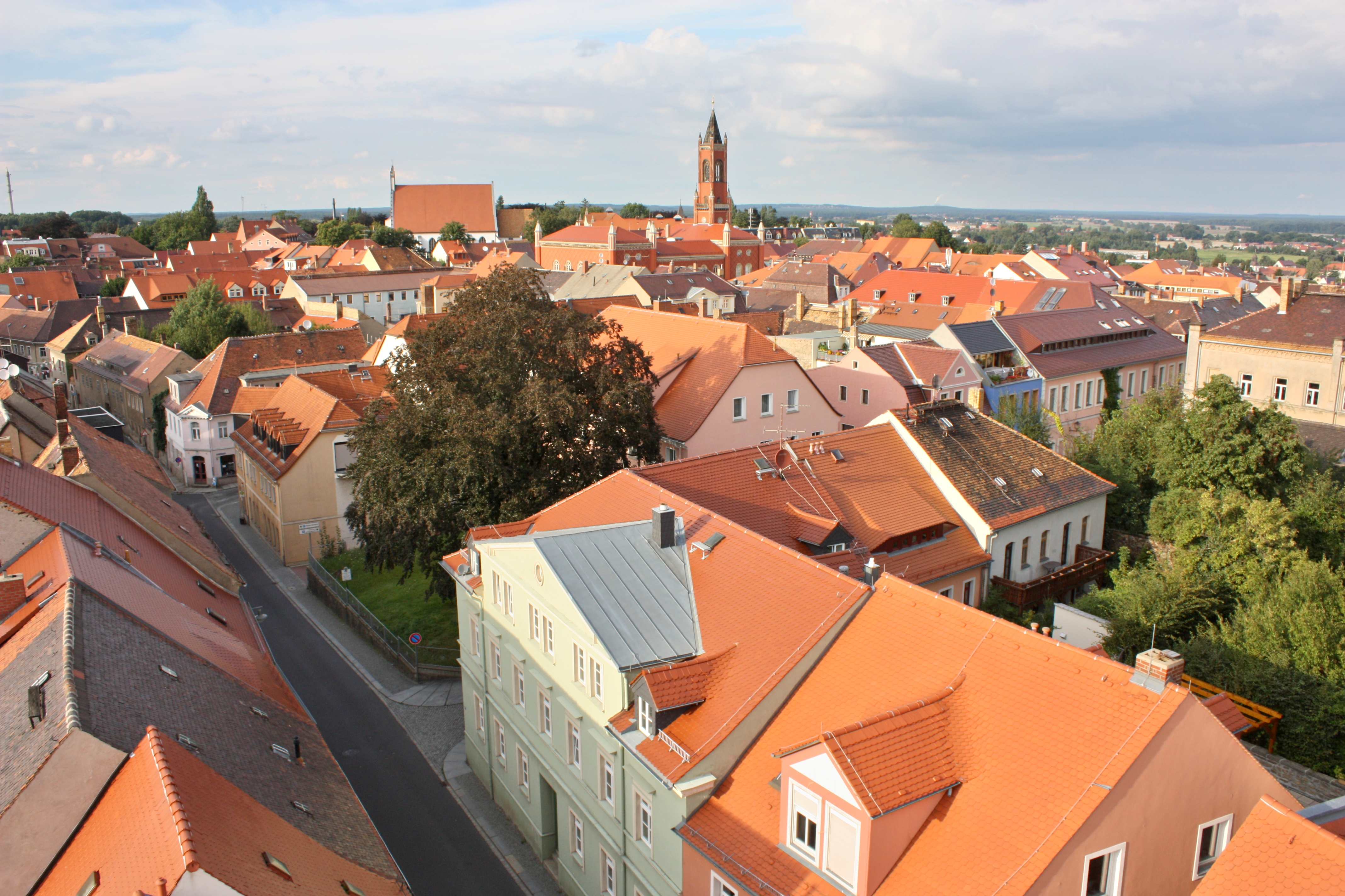 Old town of Kamenz in district Bautzen in Saxony, Germany.